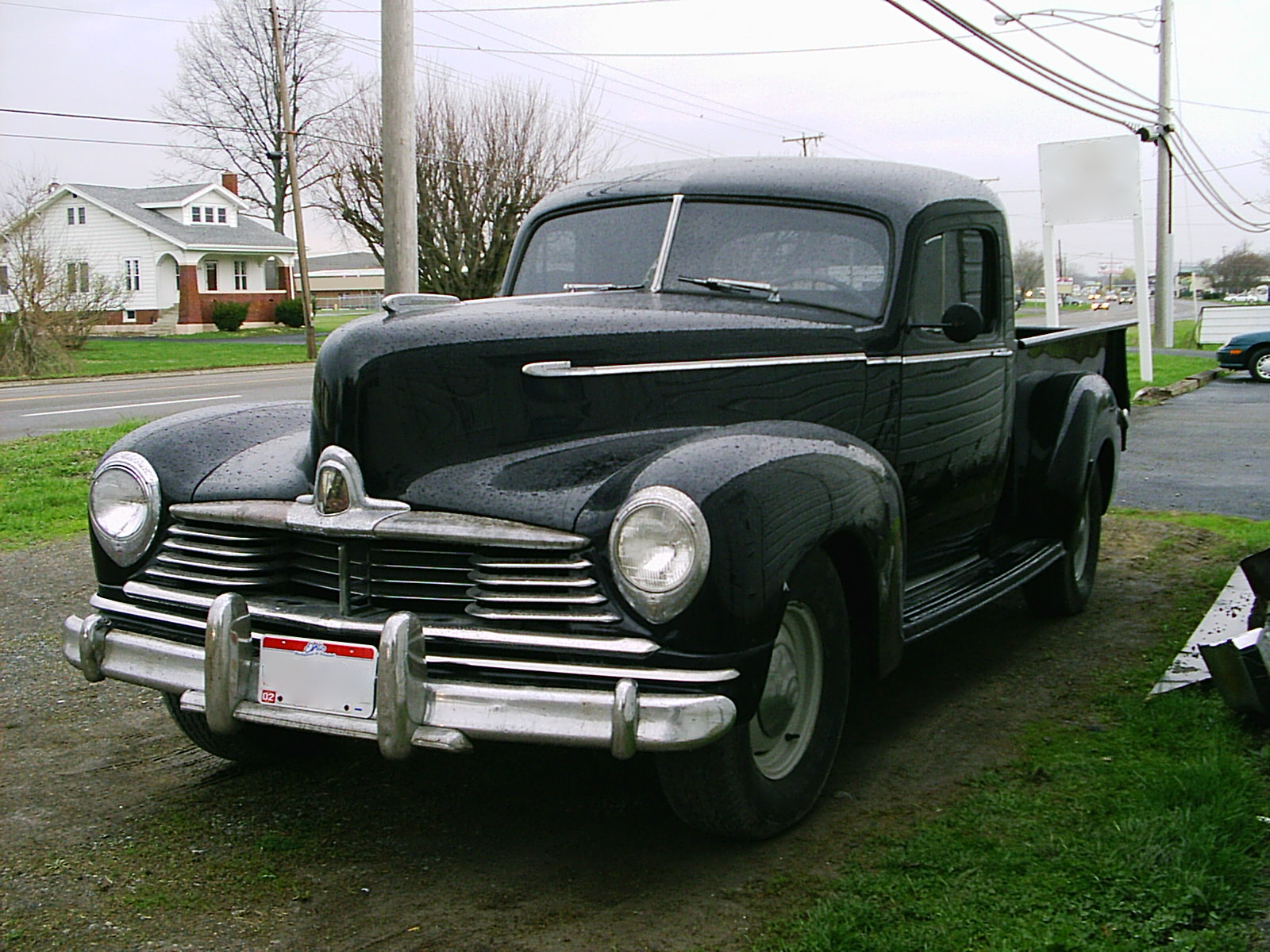 1946 or 1947 Hudson- a 128 in (3,251 mm) wheelbase, 3/4-ton pickup truck. Photograph taken in Ohio.